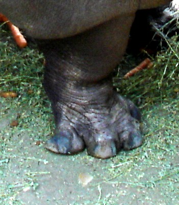 Foot of a Hippopotamus